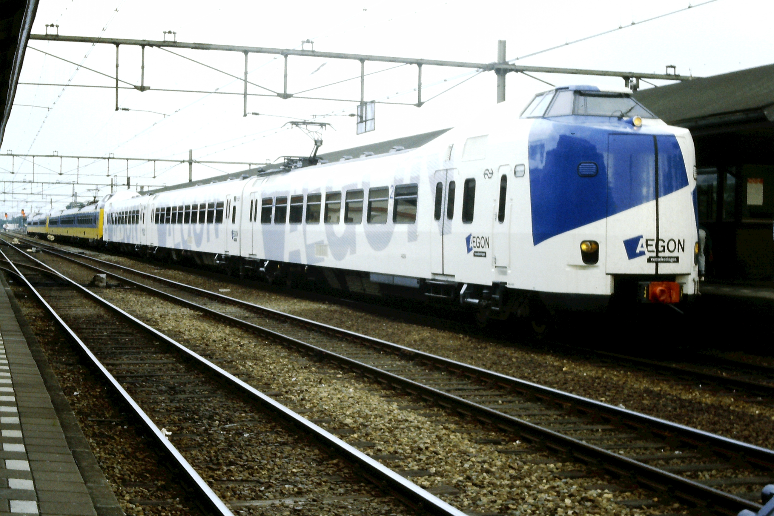 Scanned from slide.